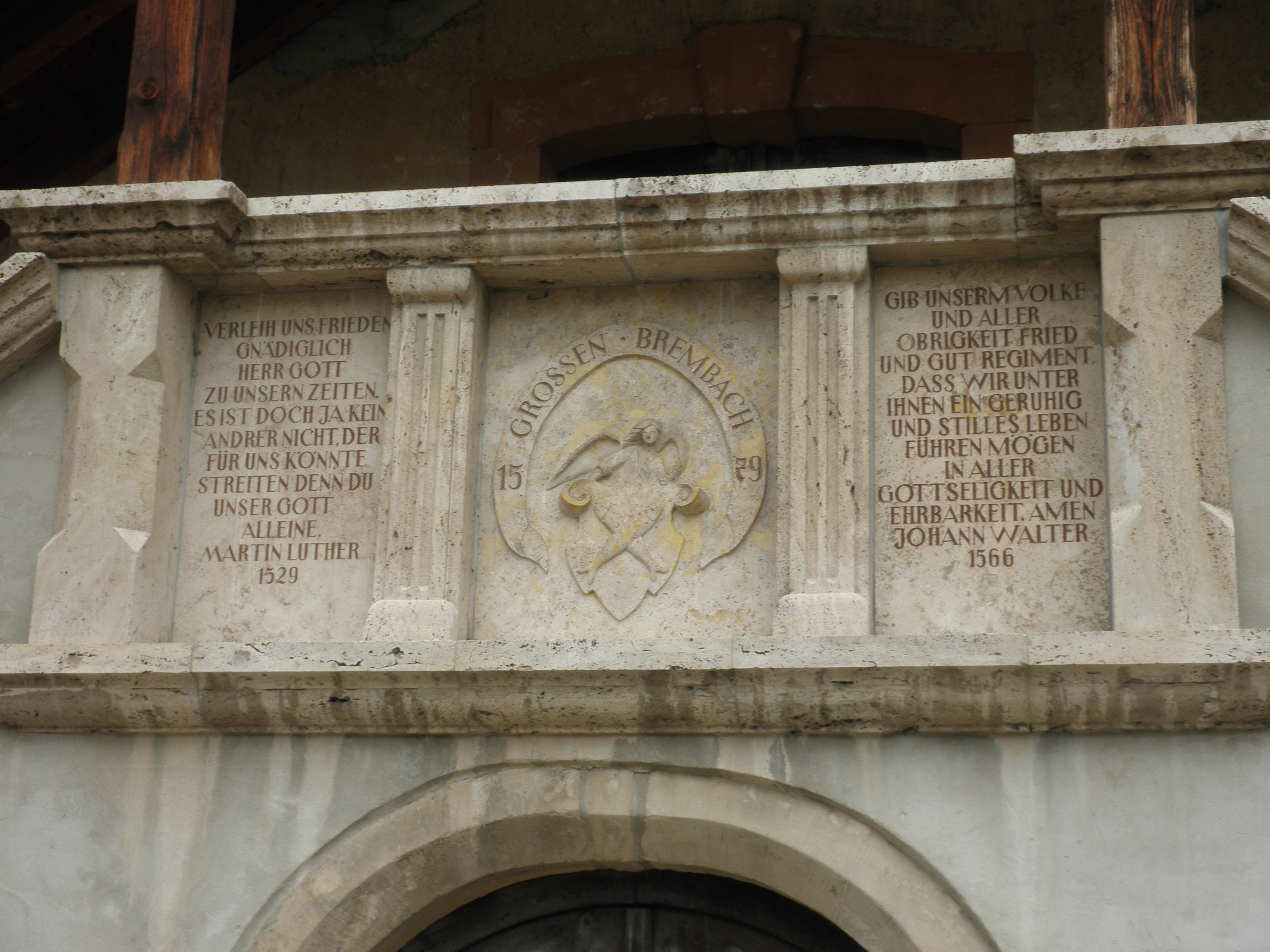 Church in Großbrembach in Thuringia